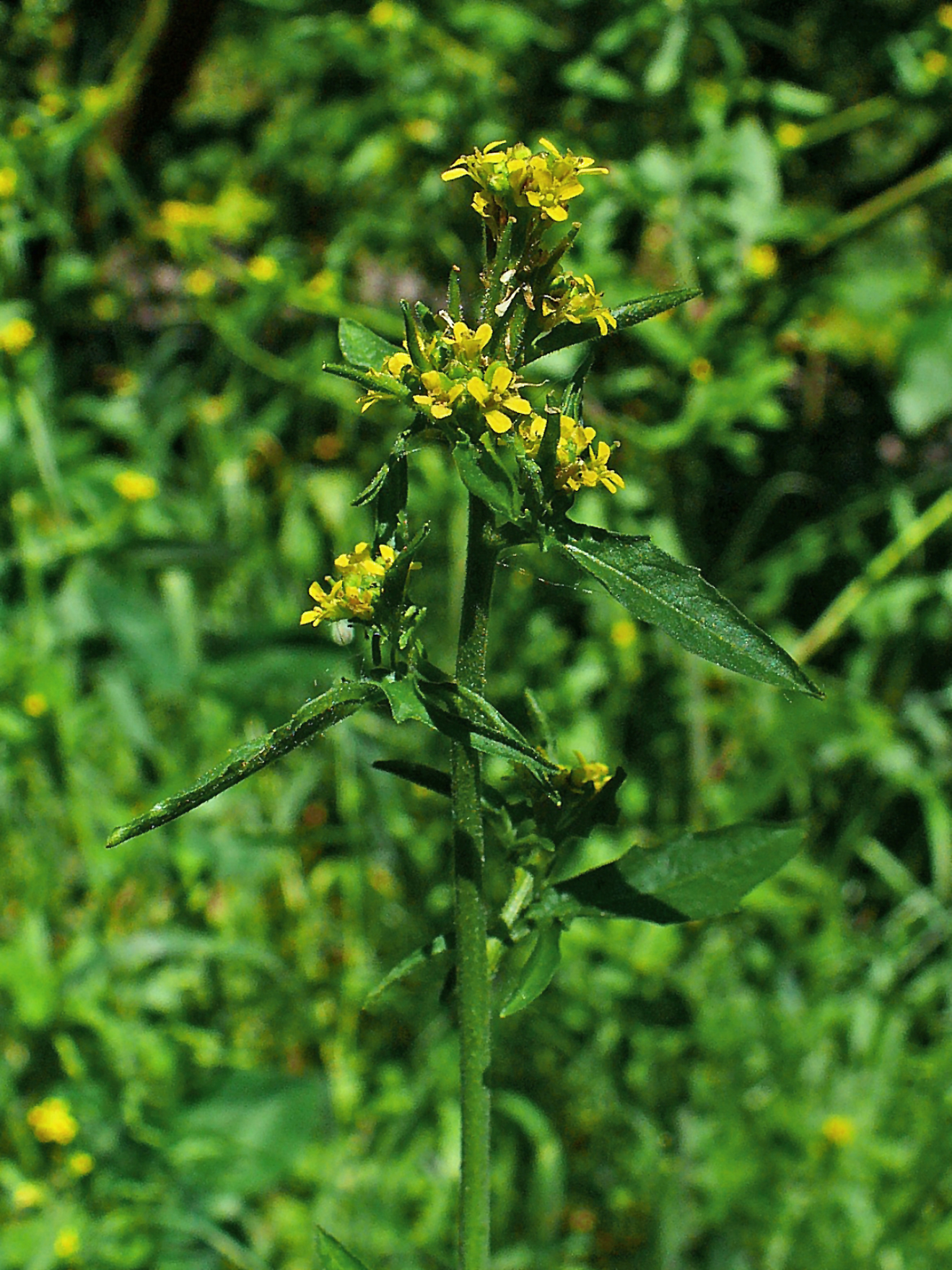 Sisymbrium officinale, Brassicaceae, Hedge Mustard, inflorescence. Karlsruhe, Germany.